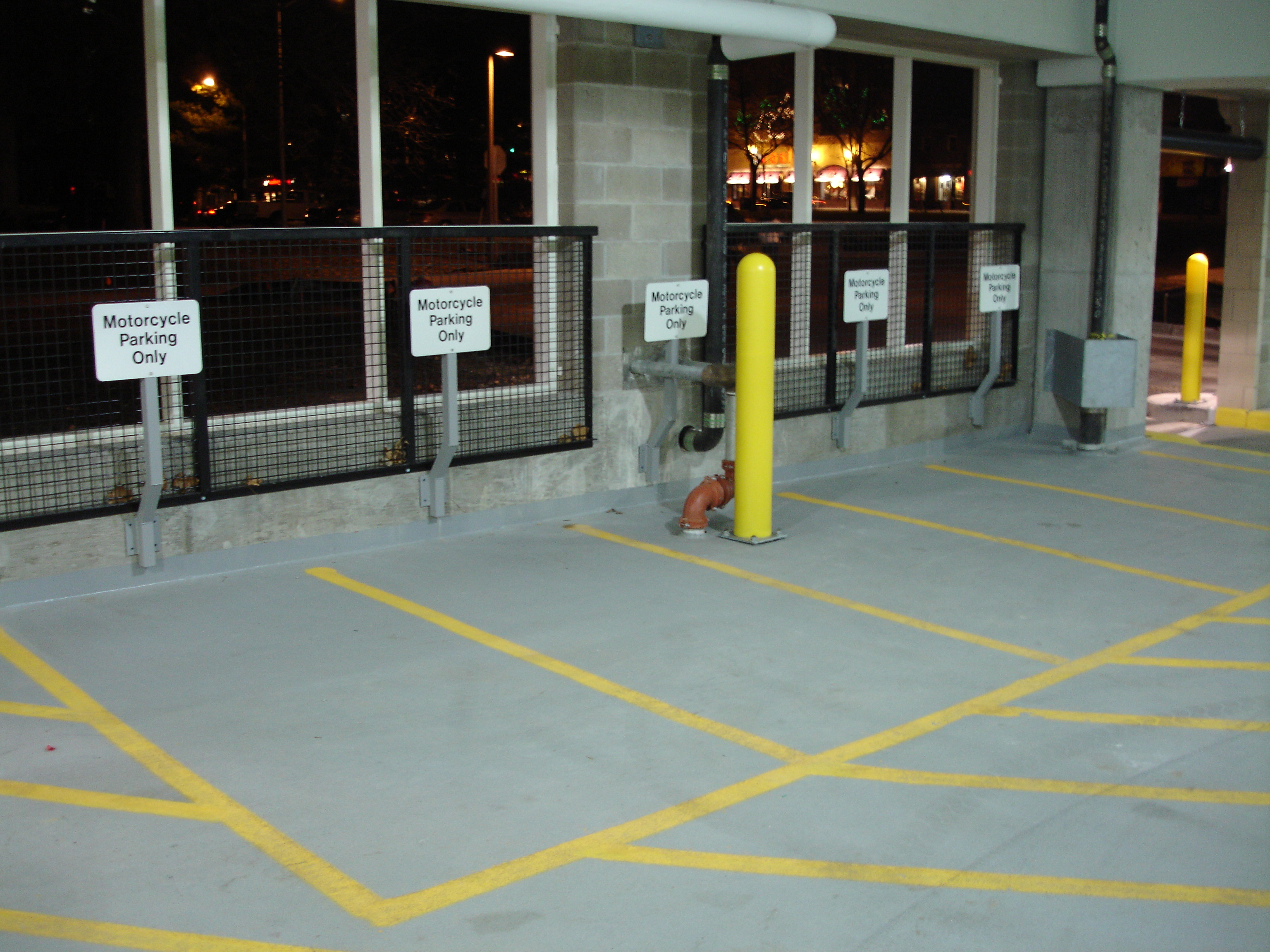 Motorcycle parking in a parking deck (Ramp #6) at Michigan State University in East Lansing, Michigan. I took this photo myself on December 15th, 2006. I release it into public domain. --Shadowlink1014 01:51, 26 March 2007 (UTC)